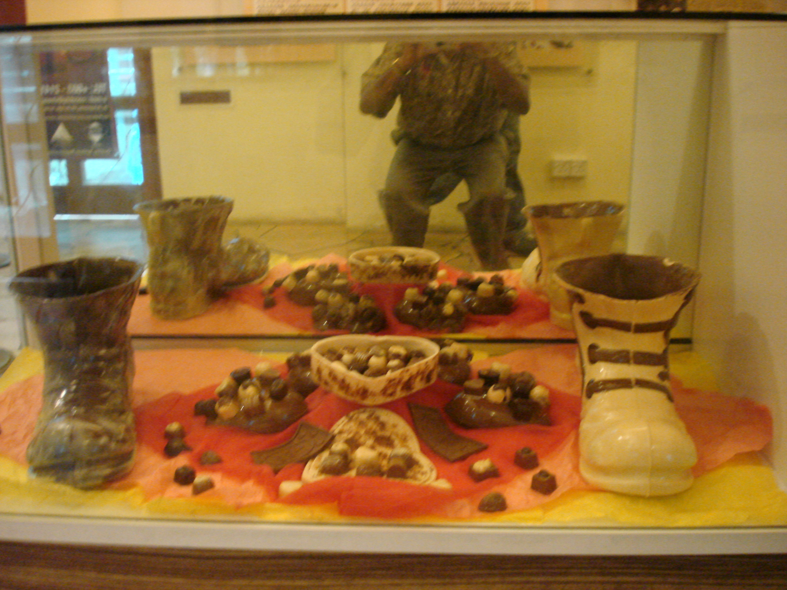 Chocolates kept on display in a chocolate factory at Malaysia